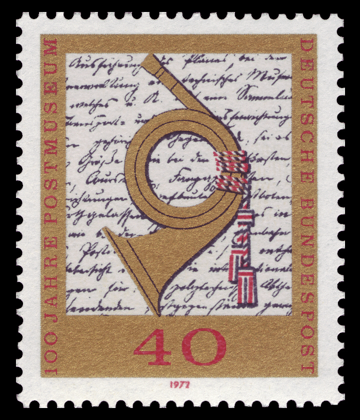 100 years of the museum for post in Frankfurt Graphics by Walter Ausgabepreis: 40 Pfennig First Day of Issue / Erstausgabetag: 18. August 1972 Michel-Katalog-Nr: 739